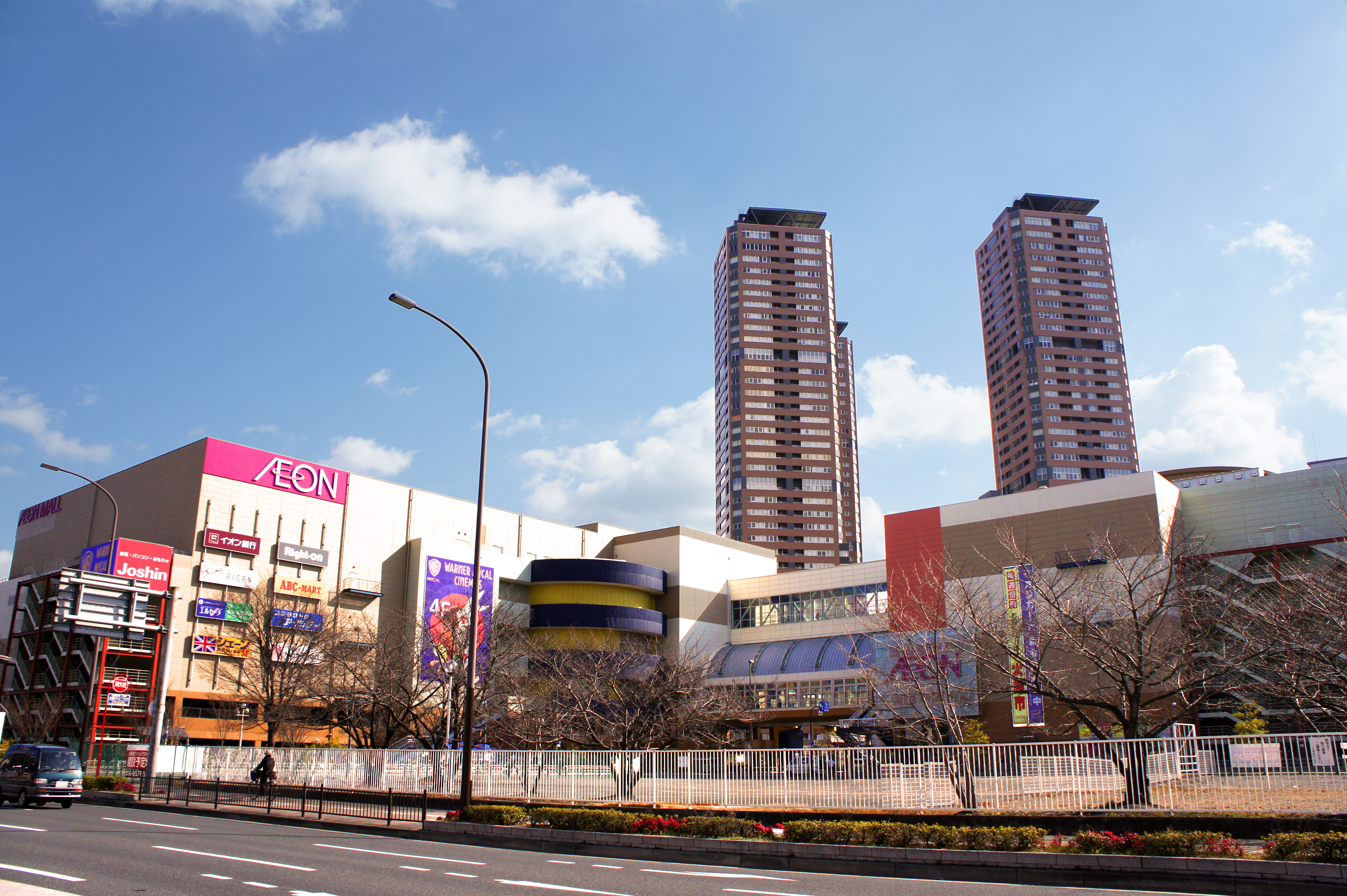 AEON MALL Dainichi, 1-18 Dainichi-higashimachi Moriguchi-shi Osaka Japan.